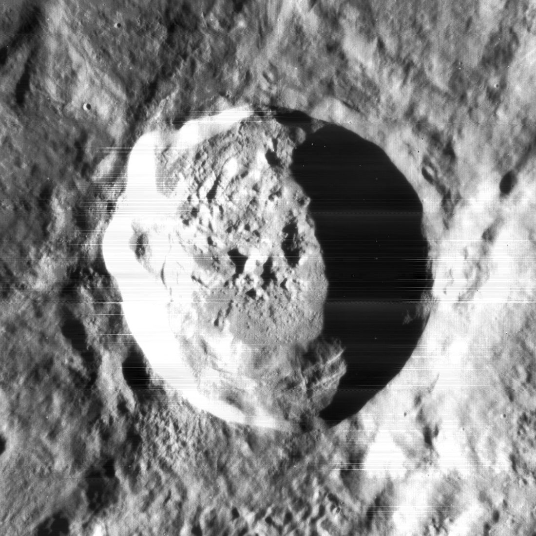 Glushko (formerly Olbers A), on the moon.